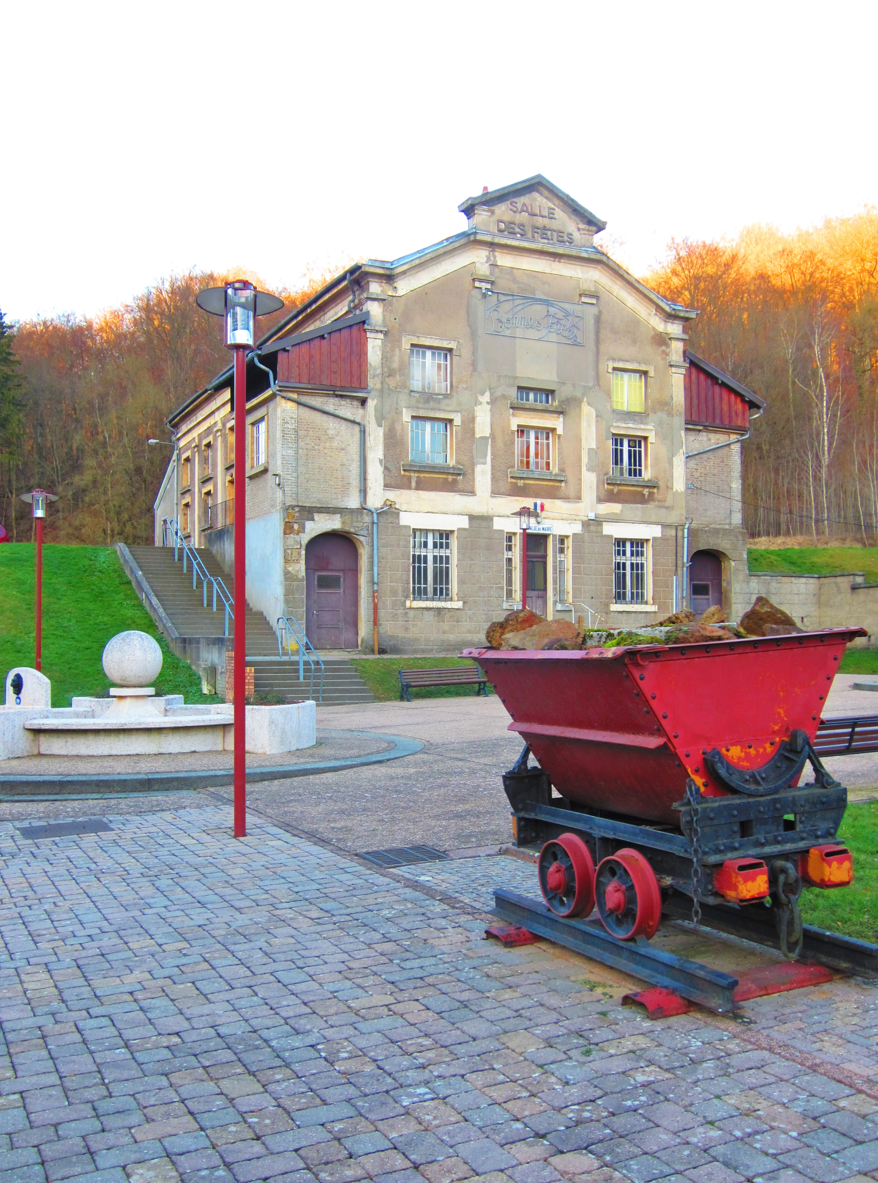 Moulaine Haucourt village hall